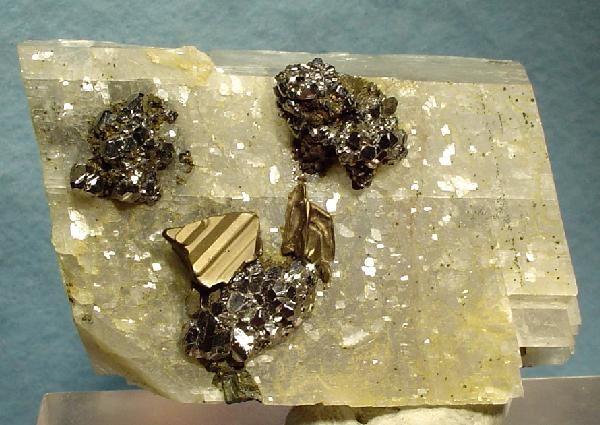 Carrollite, Chalcopyrite, Calcite Locality: Katanga (Shaba), Democratic Republic of Congo (Zaïre) (Locality at ) Size: 5.3 x 3.8 x 3.0 cm. Three, mounded clusters of silvery bright carrollite crystals are aesthetically set on the front of a lustrous, translucent and colorless calcite cleavage rhomb. Lustrous, sculptural, brass-yellow chalcopyrite crystals nicely accent both the front and back of this UNCOMMON and really showy, two-sided, combination specimen from Shaba Province, Zaire.